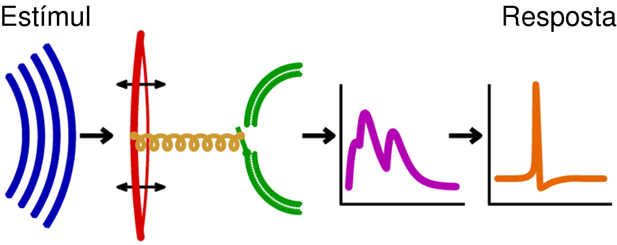 Catalan version of A schematic representation of auditory signaling.